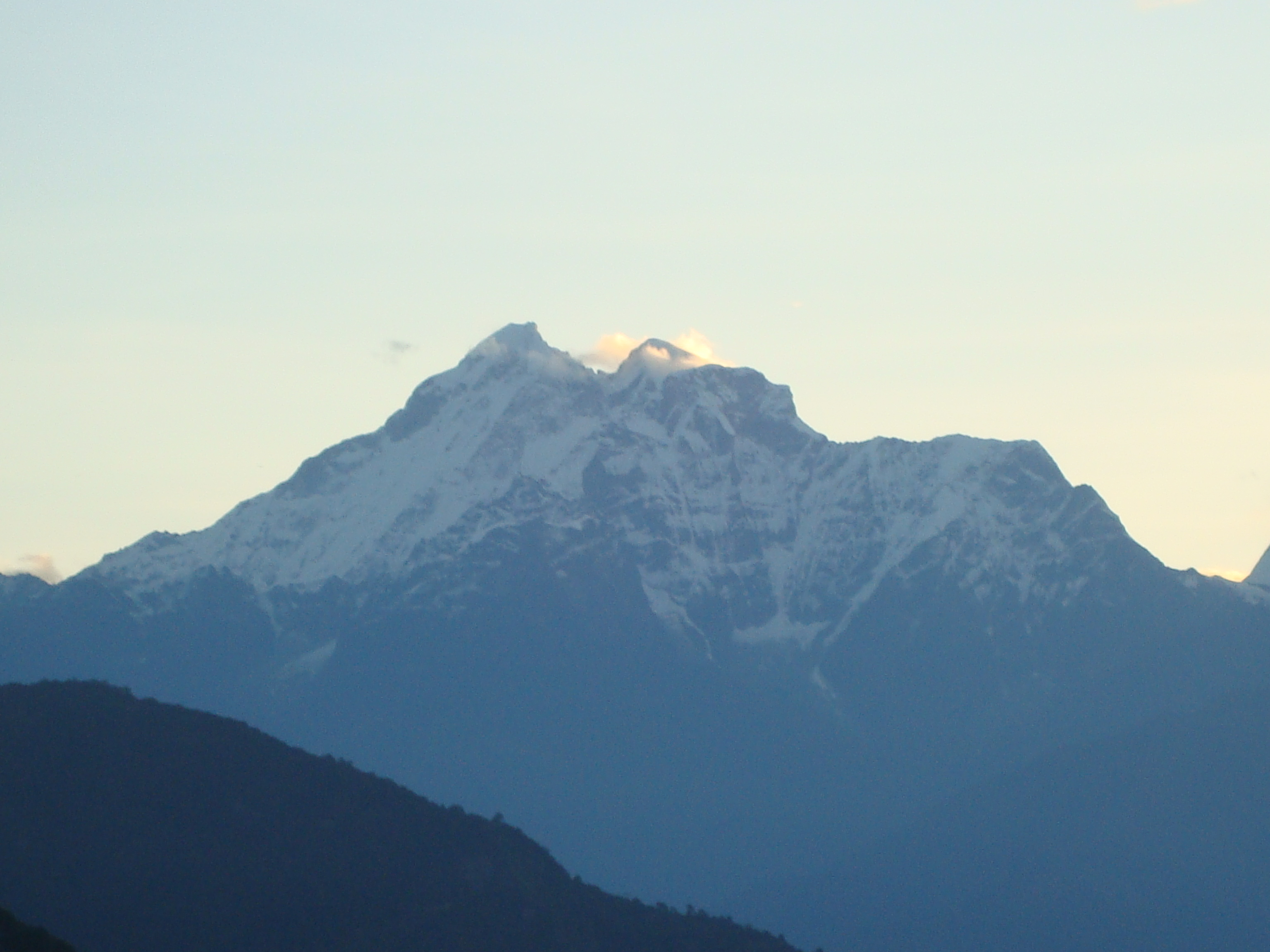 A view of Gaurishankar, the time zone of Nepal is based on the longitude of this Holy mountain of Nepal